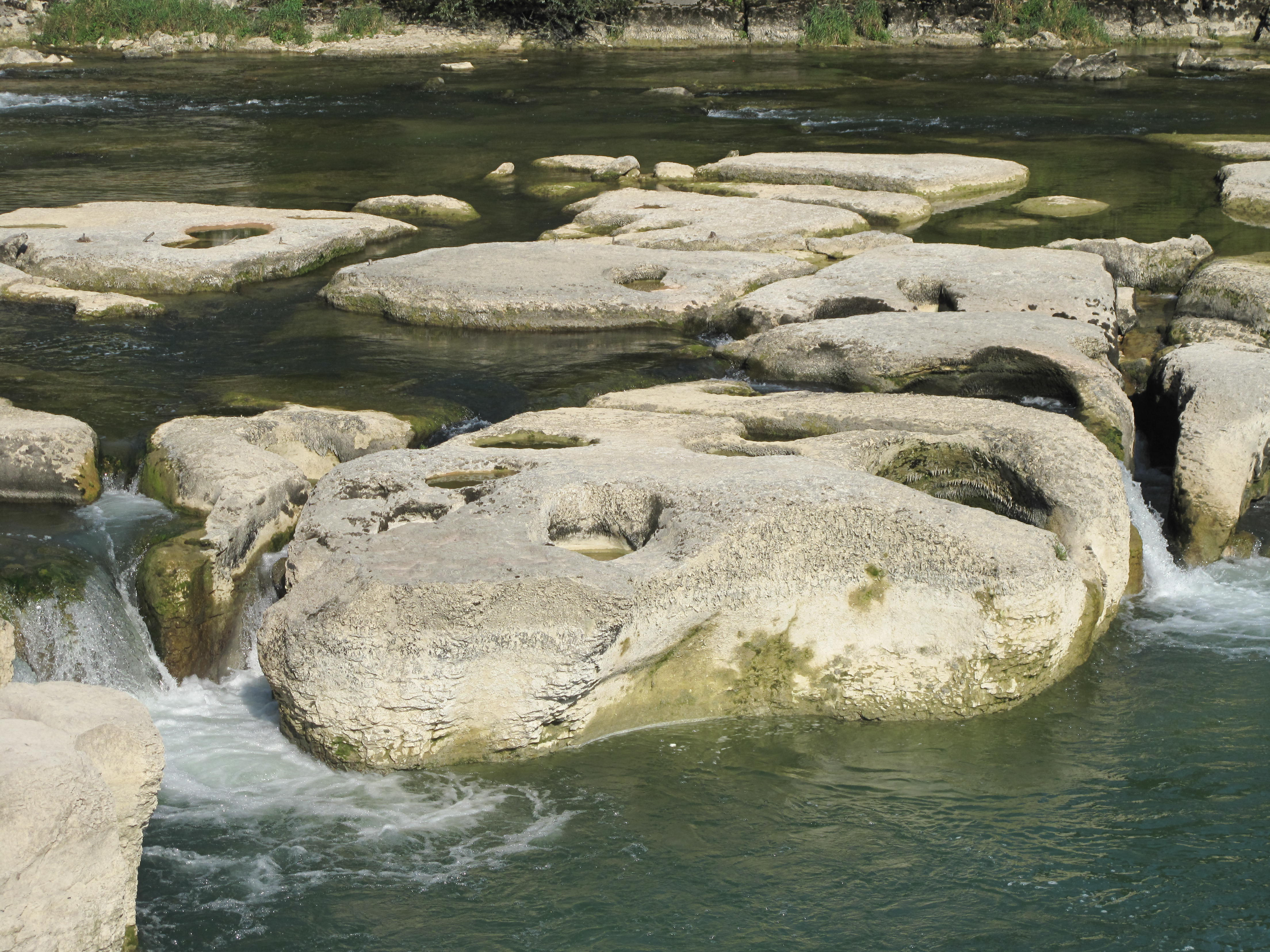 Giants kettle at the junction of the Ain River into the lake of Vouglans (Jura, France).